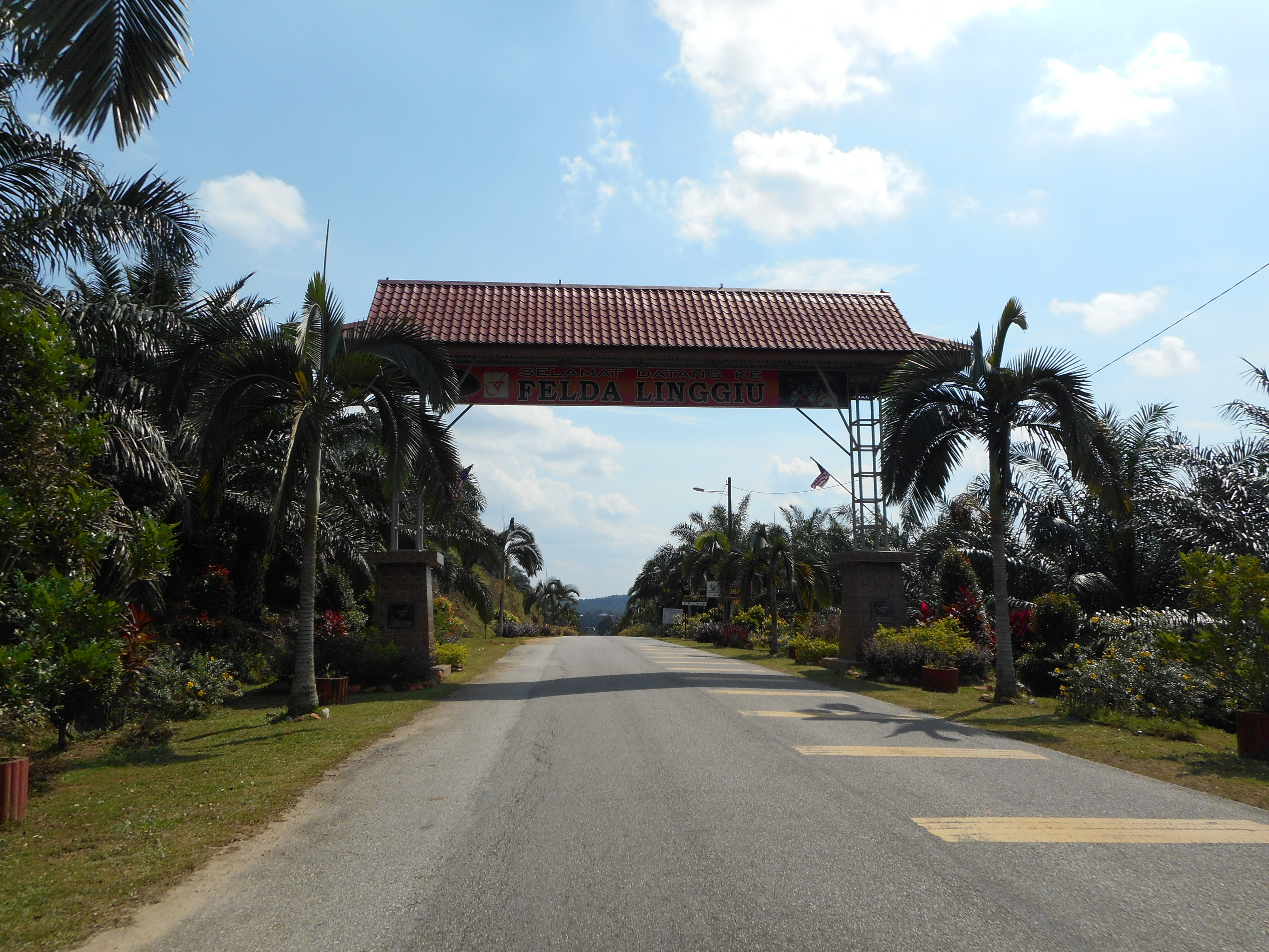 FELDA Linggiu, Kota Tinggi, Johor, Malaysia